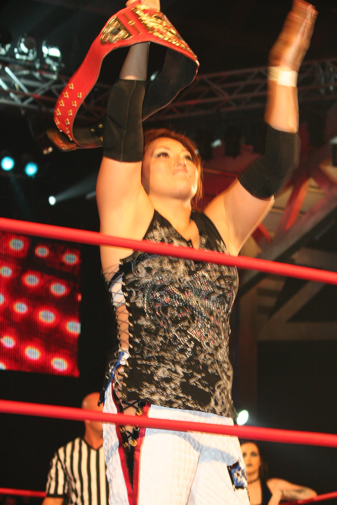 Professional wrestler Ayako Hamada at a TNA Xplosion taping with one half of the TNA Knockout Tag Team Championship